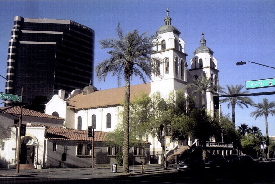 Saint Mary's Basilica was built in 1914 and is located at 231 N. 3rd. St. in Phoenix, Arizona. It was listed in the National Register of Historic Places on November 29, 1978